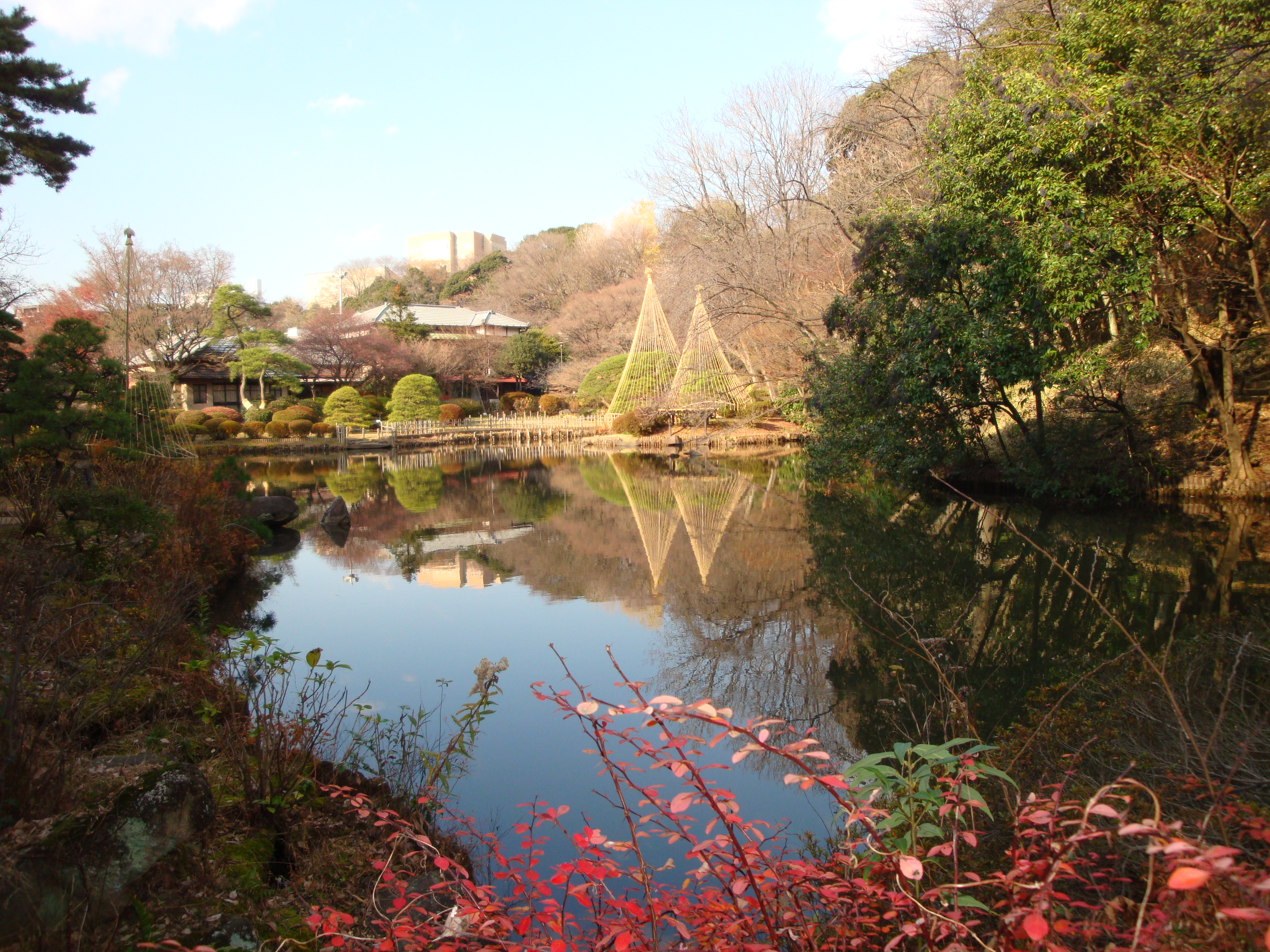 Shin-Edogawa Garden, Bunkyo, Tokyo